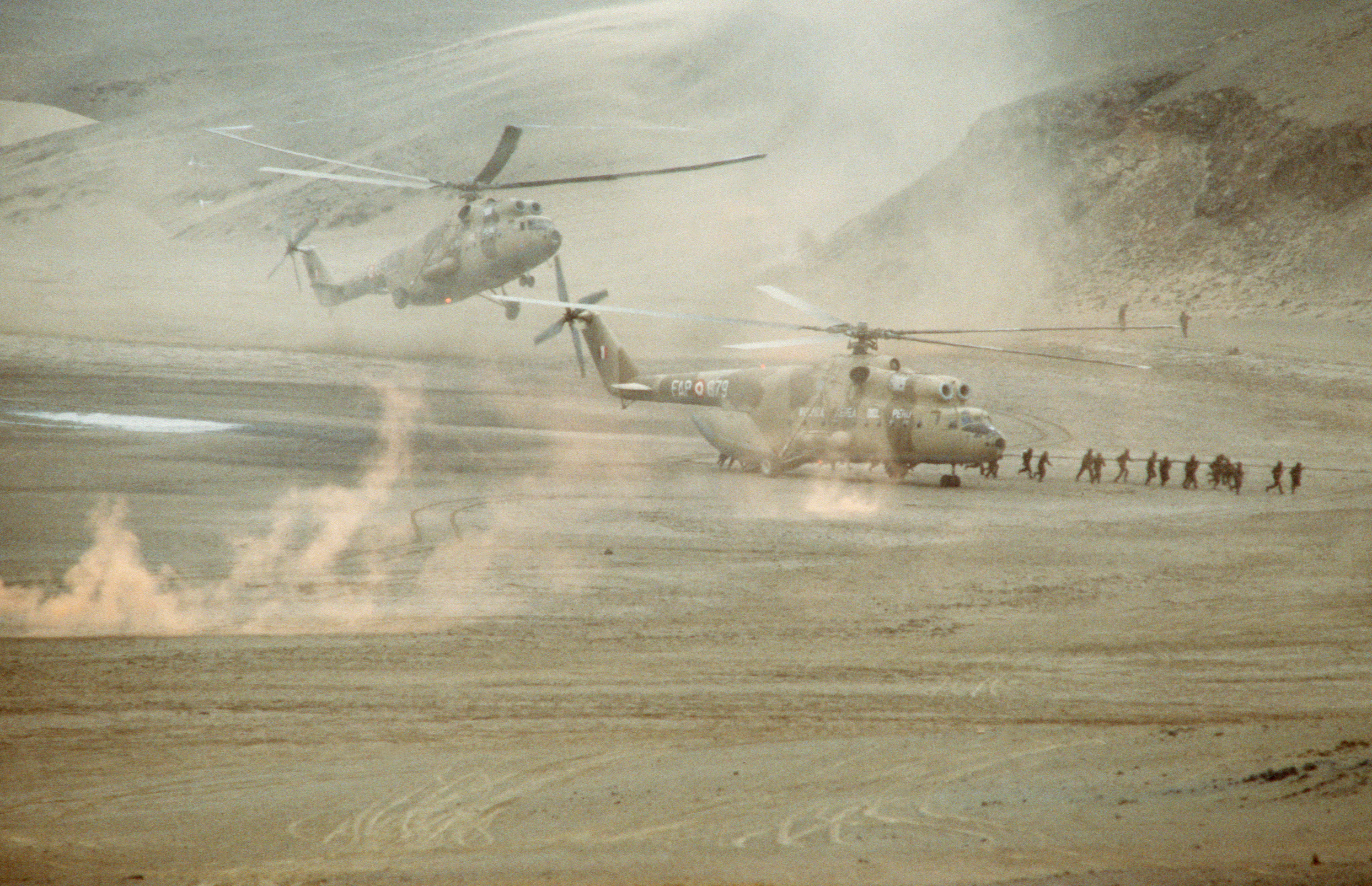 Troops exit a Peruvian, Soviet built, Mi-6 Hook helicopter as another lands behind it during an air assault exercise taking place as part of Operation UNITAS XXV.